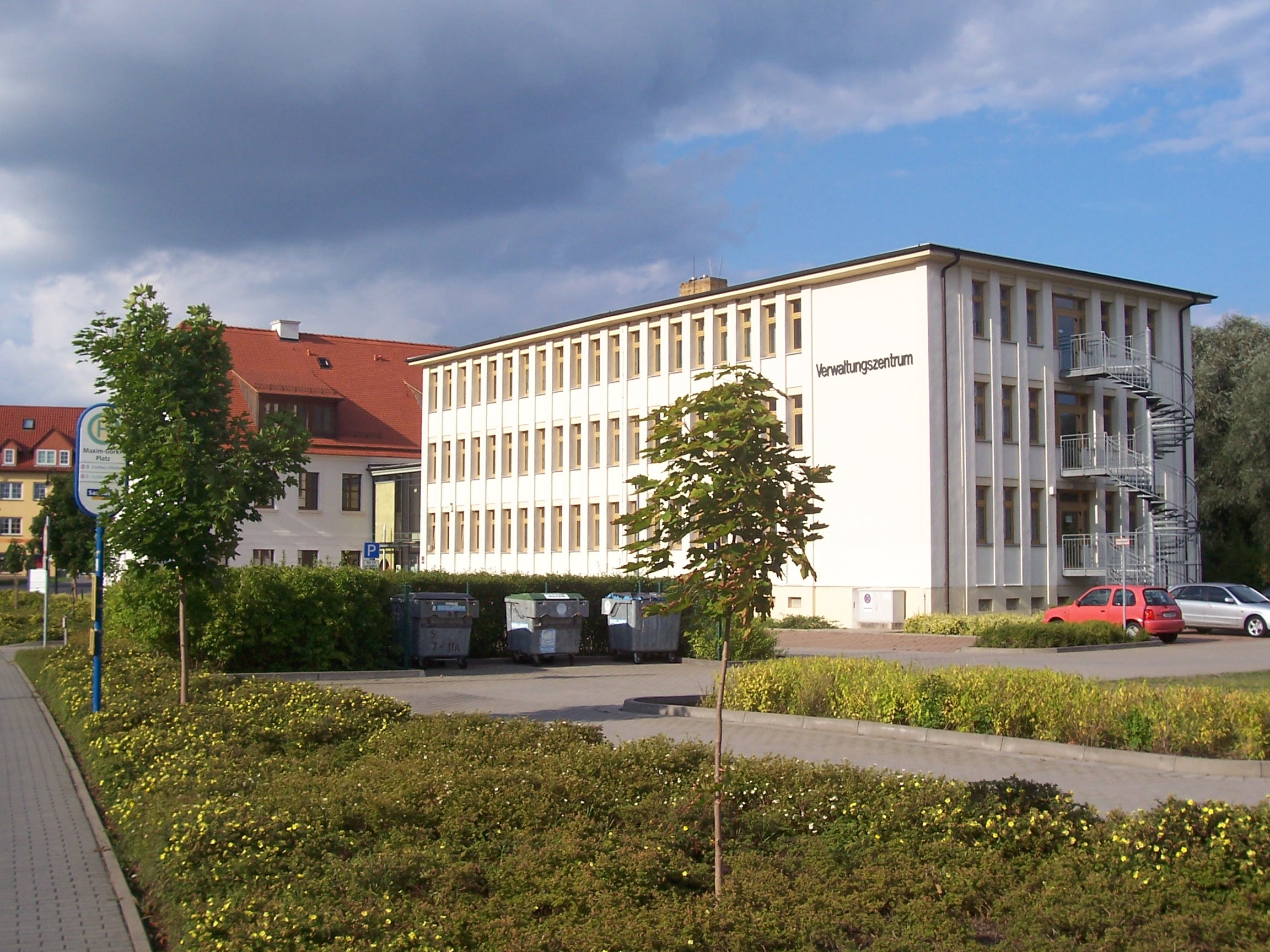 centre of administration in Eilenburg (Maxim-Gorki-Platz)